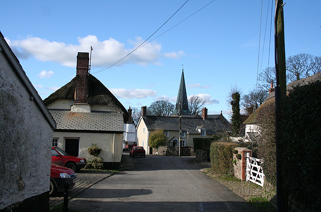 King’s Nympton: towards the church Looking westwards from a point west of the Grove Inn